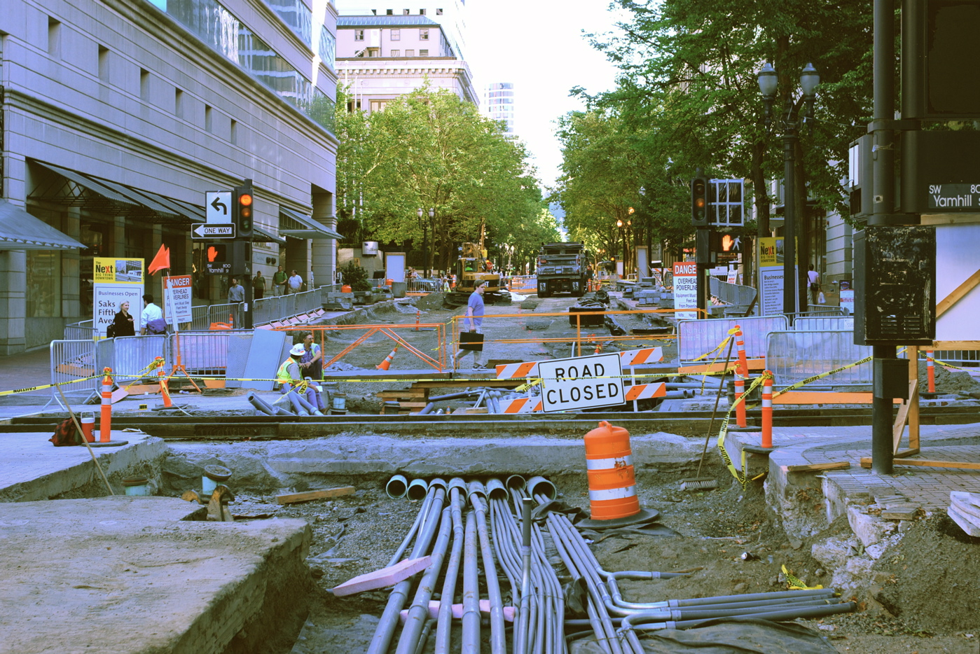 The Portland Transit Mall, in Portland, Oregon, during its 2007-2009 rebuilding, to renovate the aging (1977-opened) facility and add light rail tracks for the MAX system. This view is looking south on 5th Avenue at Yamhill Street, where previously existing MAX tracks crossed.